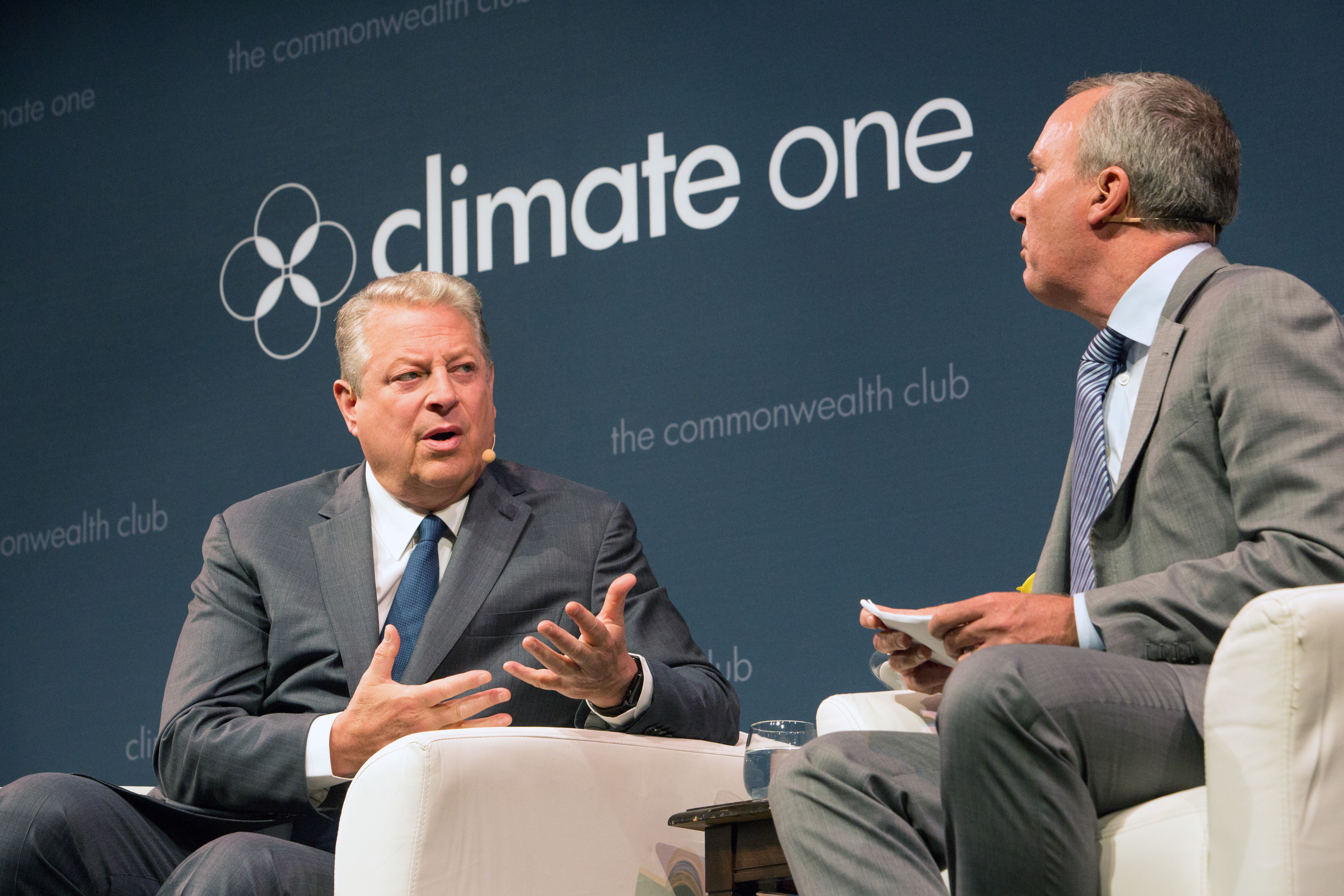 Former U.S. Vice President Al Gore sits down with Climate One's Greg Dalton to talk climate change